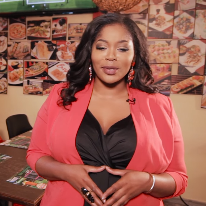 Ono Bello with host, Cornelia O'Dwyer talk about Ageism on NdaniTV in 2015